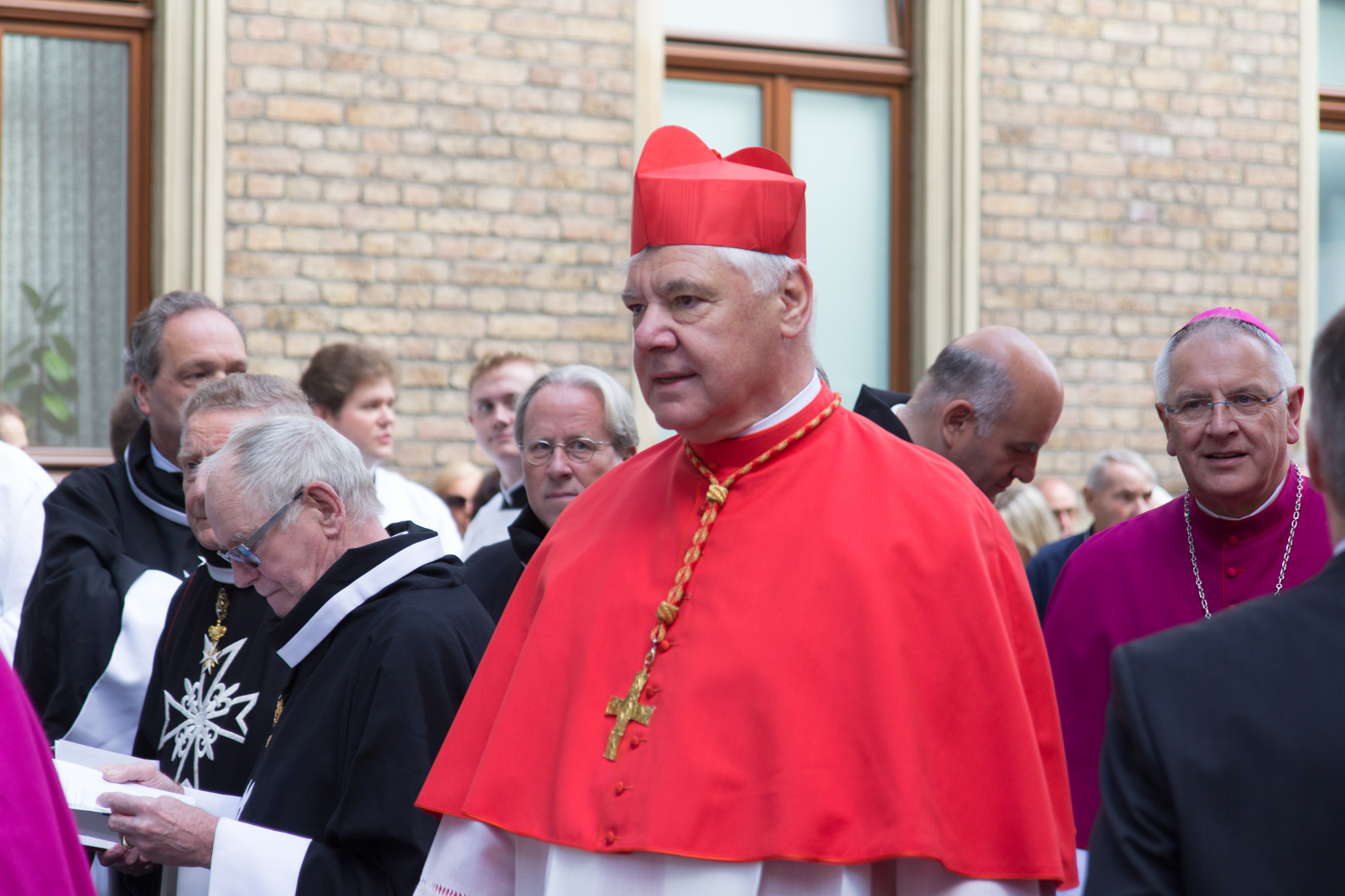 Funeral procession of Cardinal Joachim Meisner in Cologne. Starting in St. Gereon (viewing area), going to the Cologne Cathedral (Funeral place)